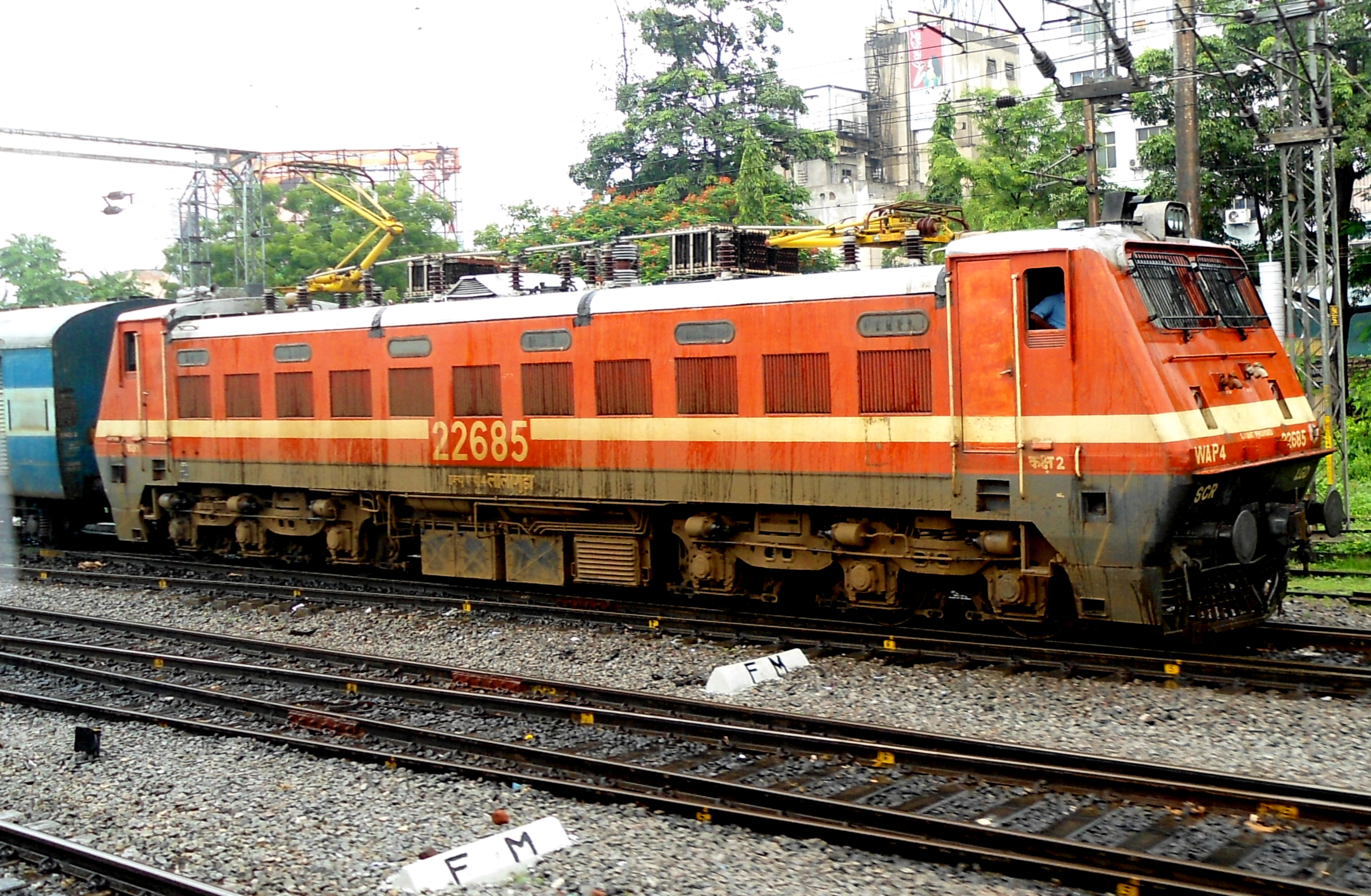 Howrah bound East Coast Express hauled by LGD shed WAP-4 (22685) at Secunderabad railway station